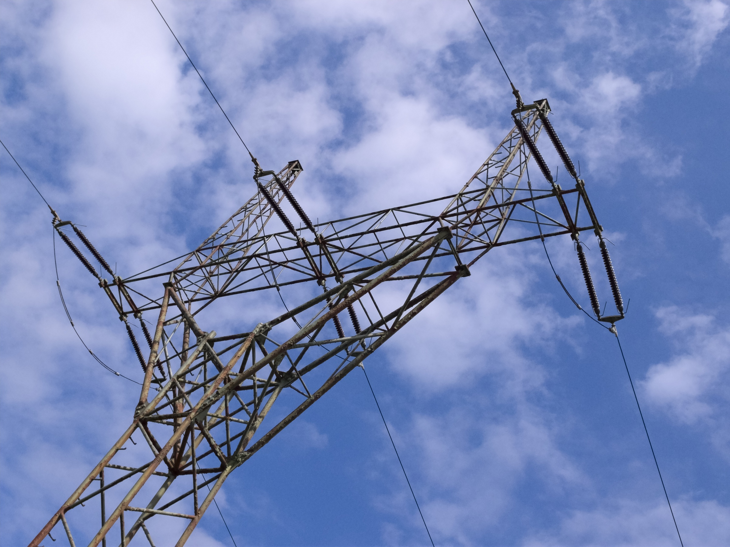 Head of a delta-type pylon of the 110 kV line Meitingen–Memmingen